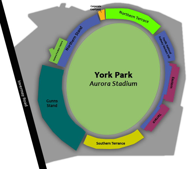 York Park (Aurora Stadium) map based on Aurora Stadium map.